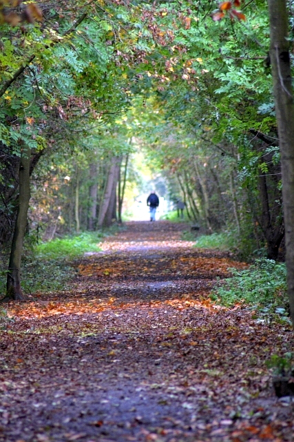 Castle Eden Walkway Along the trackbed of the Stockton and Castle Eden Branch Railway which dates from the 1870s.